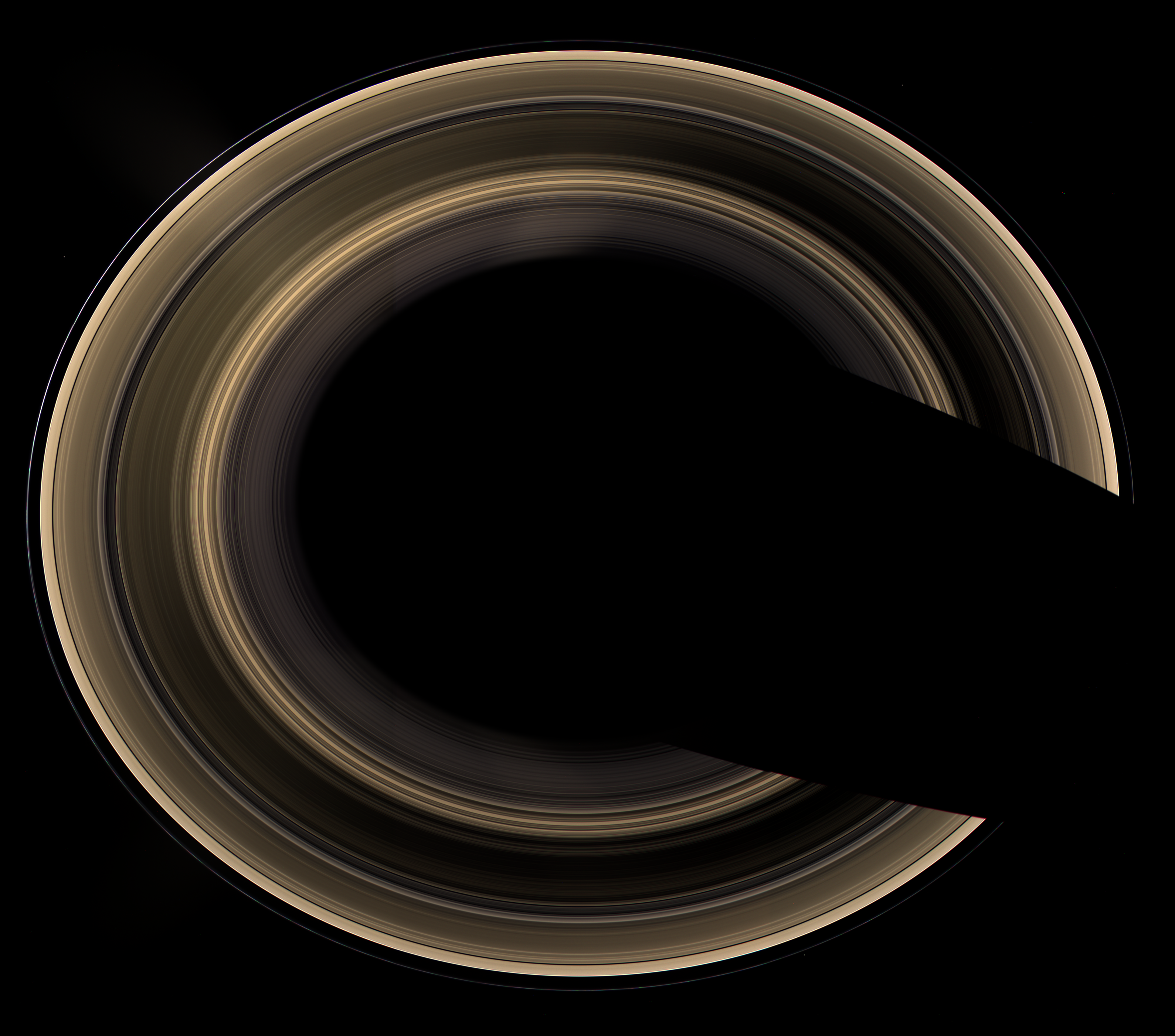 Saturn from 60 degrees by Cassini